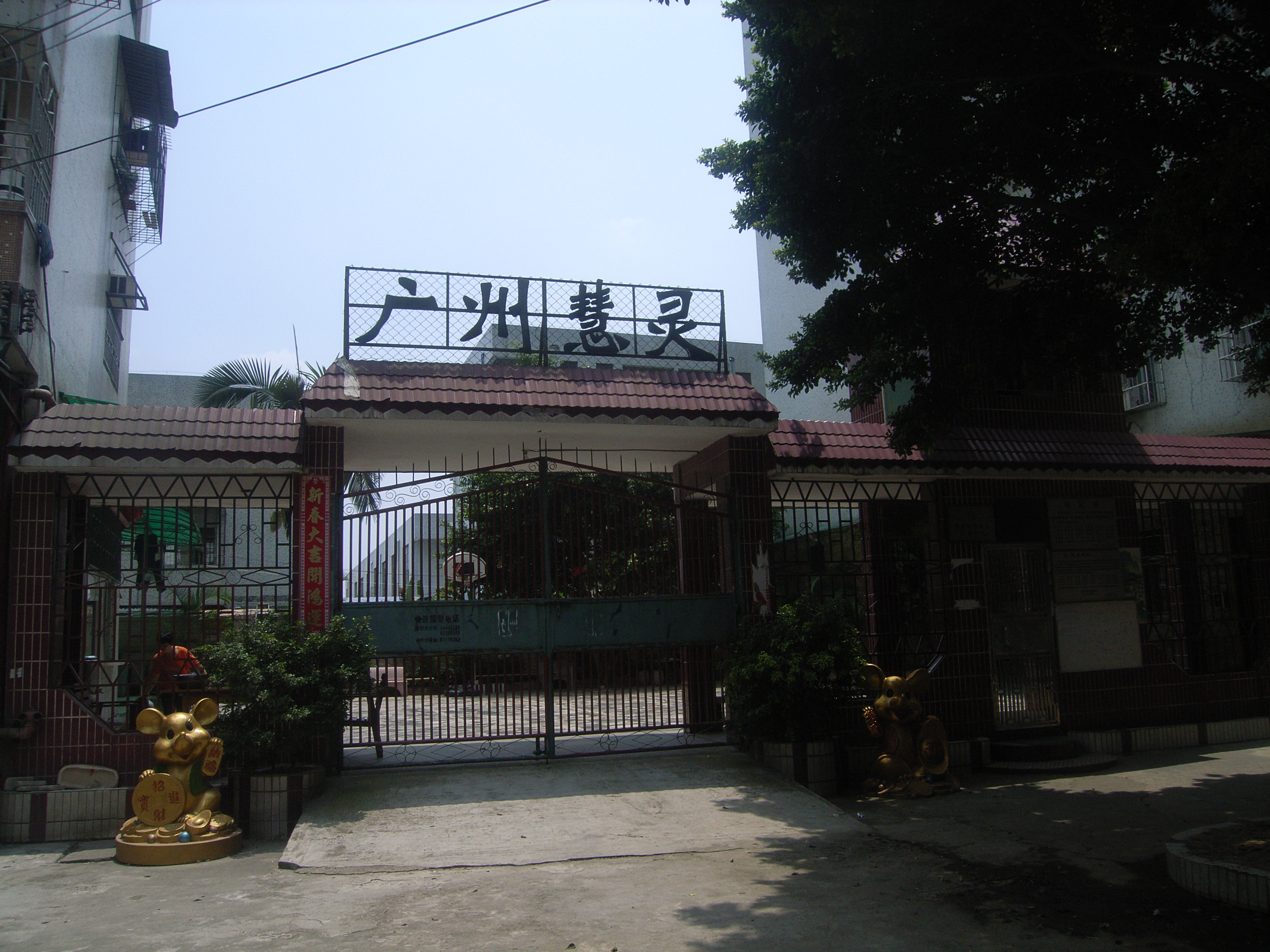 Guangzhou Huiling Adult Care Residential Home